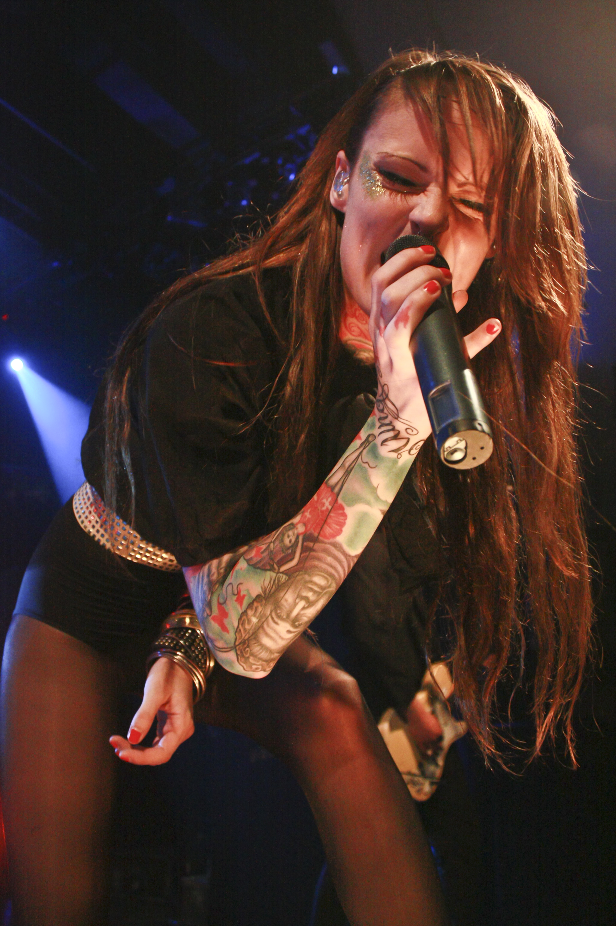 Jennifer Rostock, Salzburg/Austria